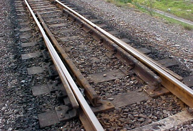 Welded rail expansion joint Location: Montague Gardens, Cape Town, Western Cape